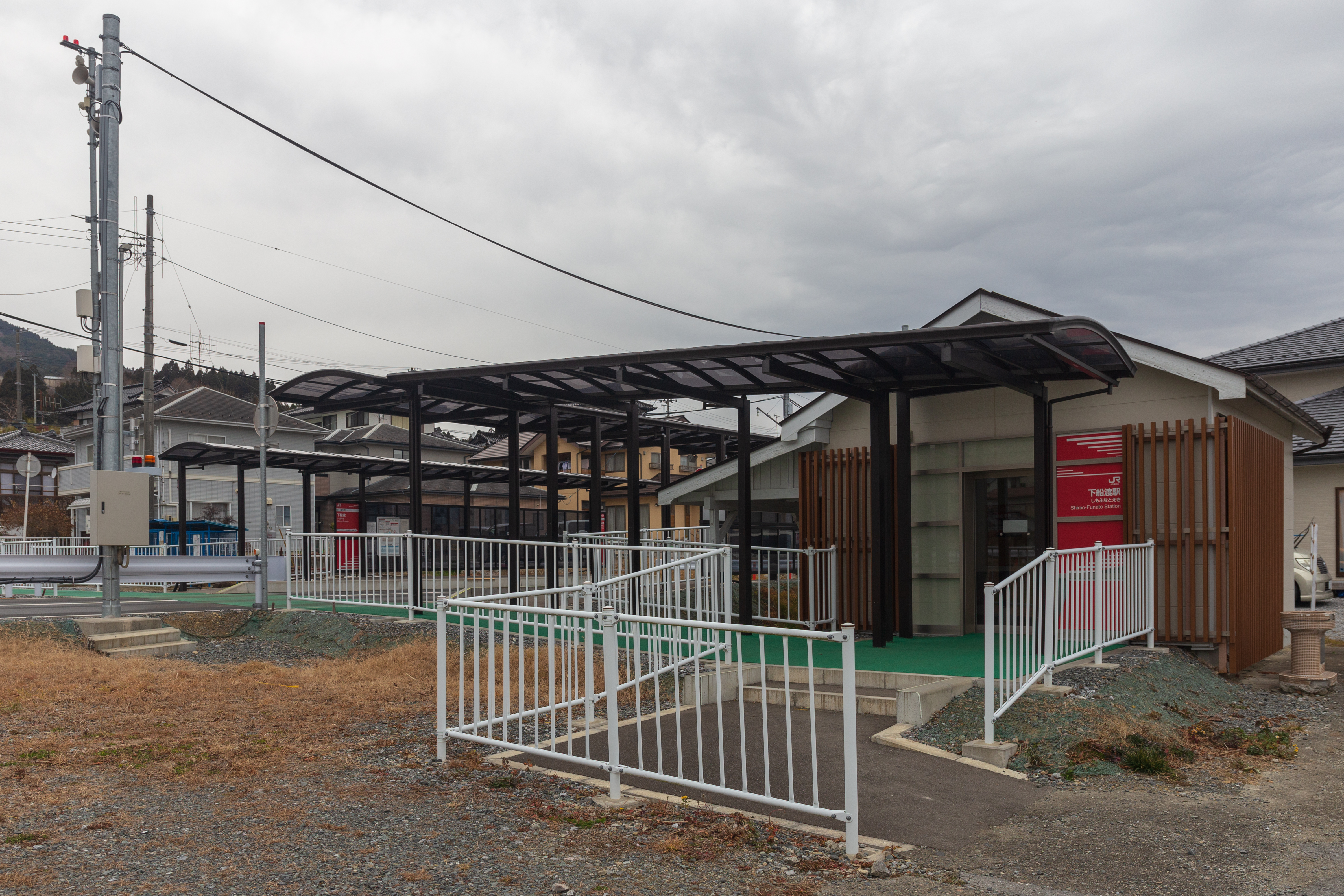 East Japan Railway (JR East) Ofunato Line BRT Shimofunato Station in Ofunato City, Iwate Prefecture, Japan